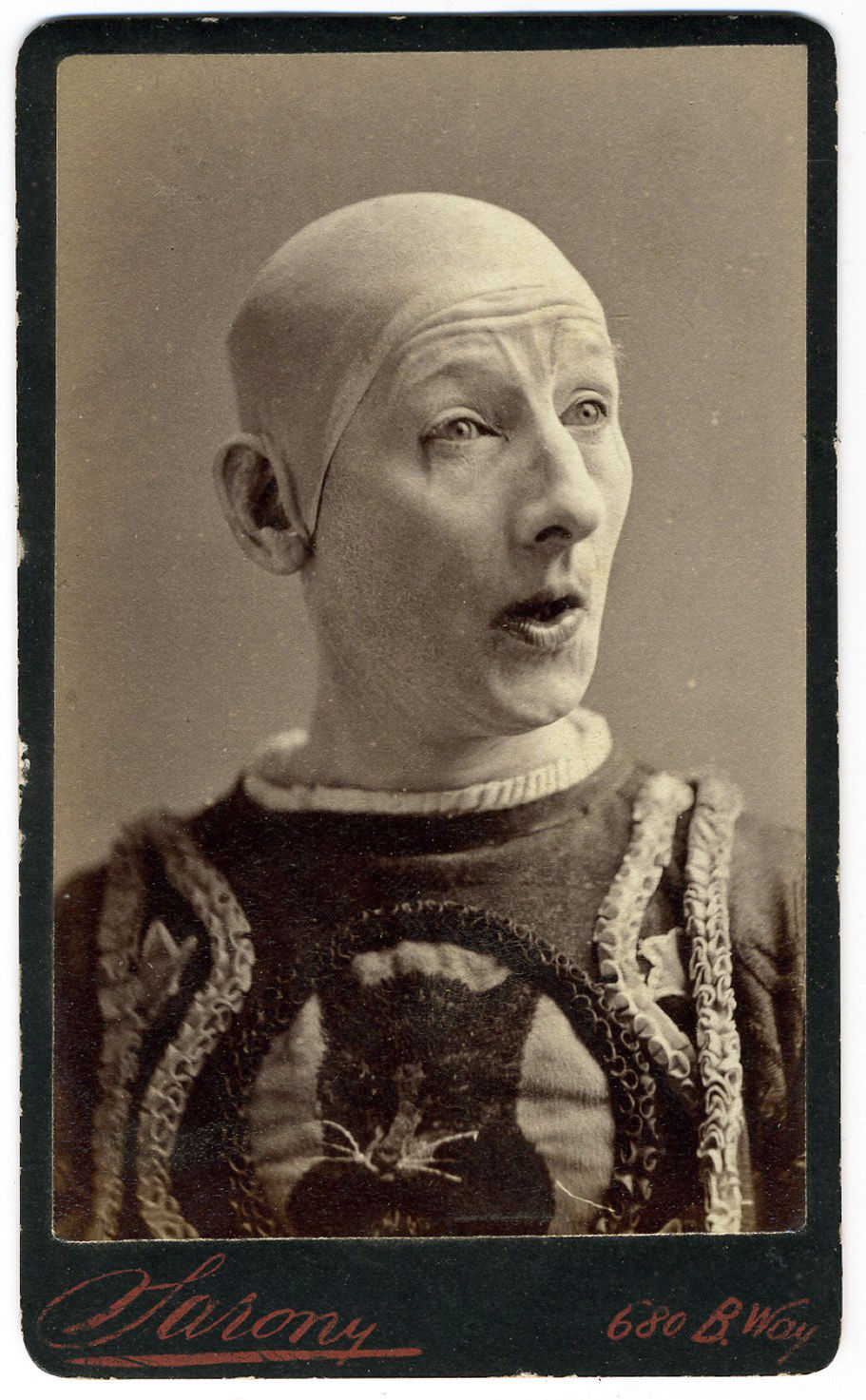 Carte de Visite portrait photograph of clown George L. Fox.